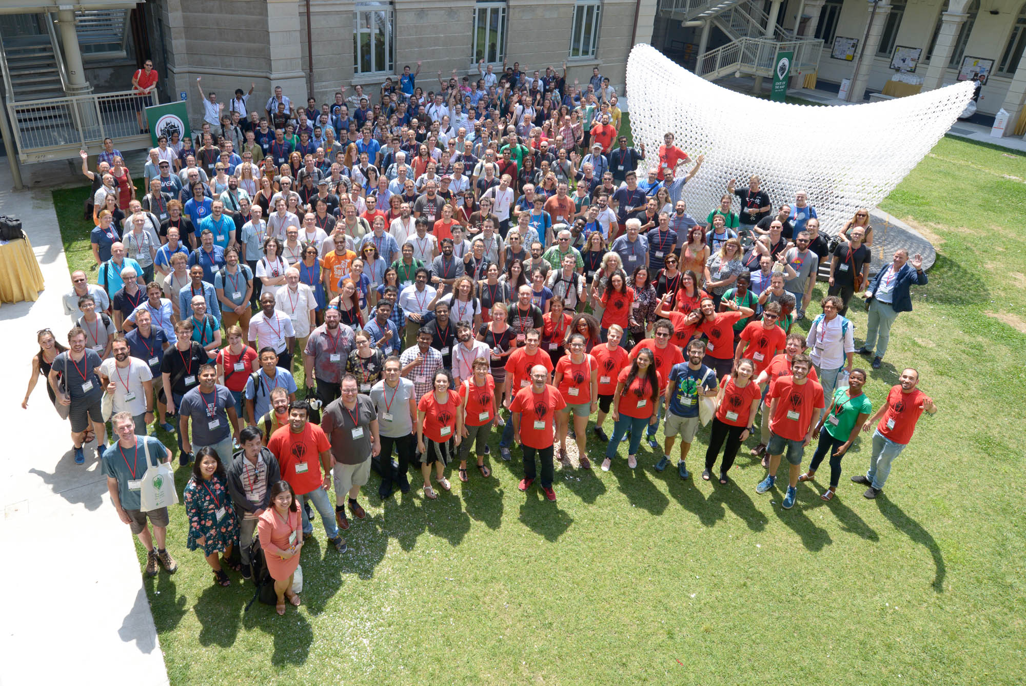 State of the Map 2018 at Politecnico, Milano, Italy